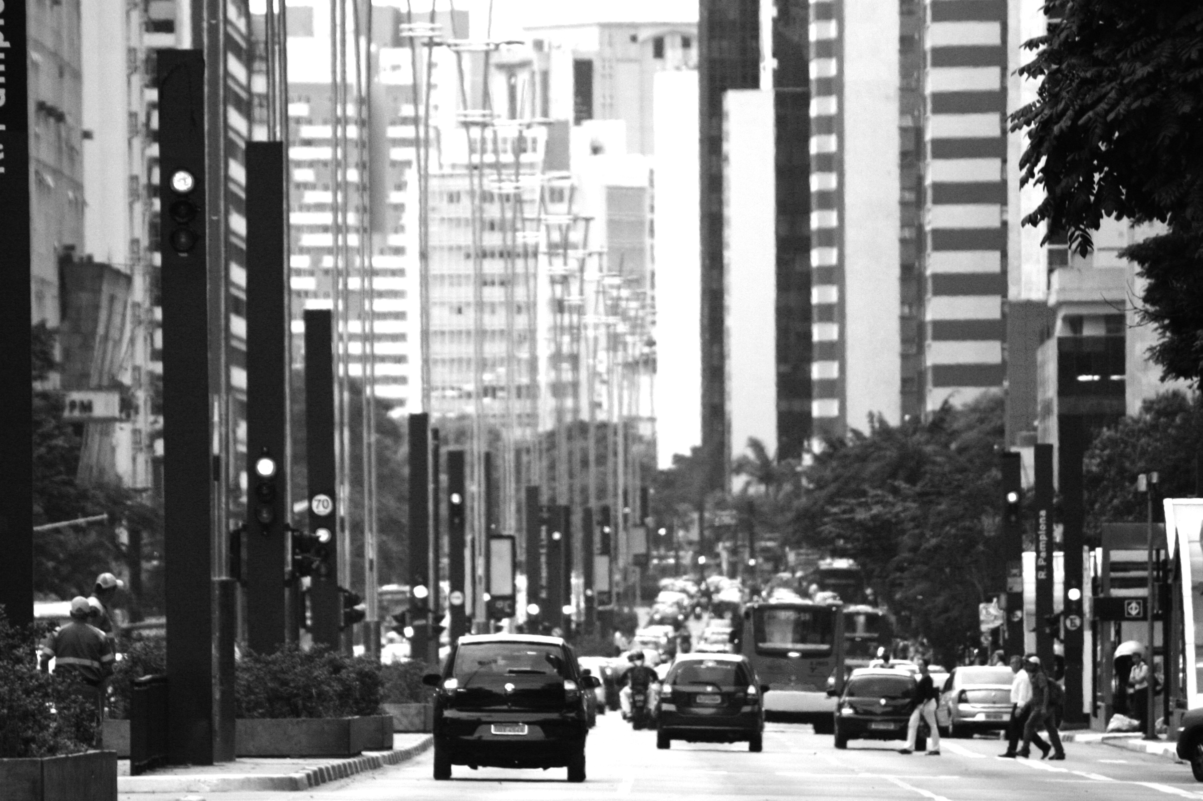 Avenida Paulista